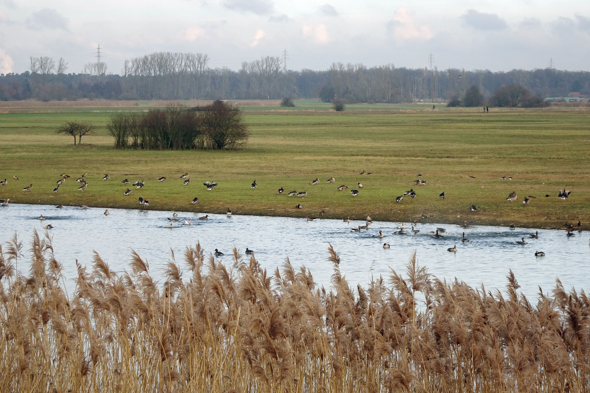 protected area "Auf dem Sand zwischen Hergershausen und Altheim" in the area of "Hergershäuser Wiesen" (part of Natura2000 Special area of conservation „Untere Gersprenz“ DE6019-303 and special protection area „Untere Gersprenzaue“ DE6119-401, TR Hergershausen). Greylag geese.